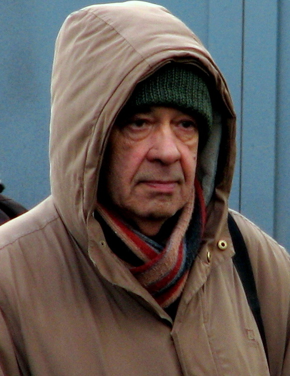 Antoni Krauze, polish film director during filmmaking of "Black Thursday" at intersection of ulica Świętojańska and Aleja Józefa Piłsudskiego in Gdynia. People on this picture are actors, extras, and film crew. "Black Thursday" is a film about Polish 1970 protests.